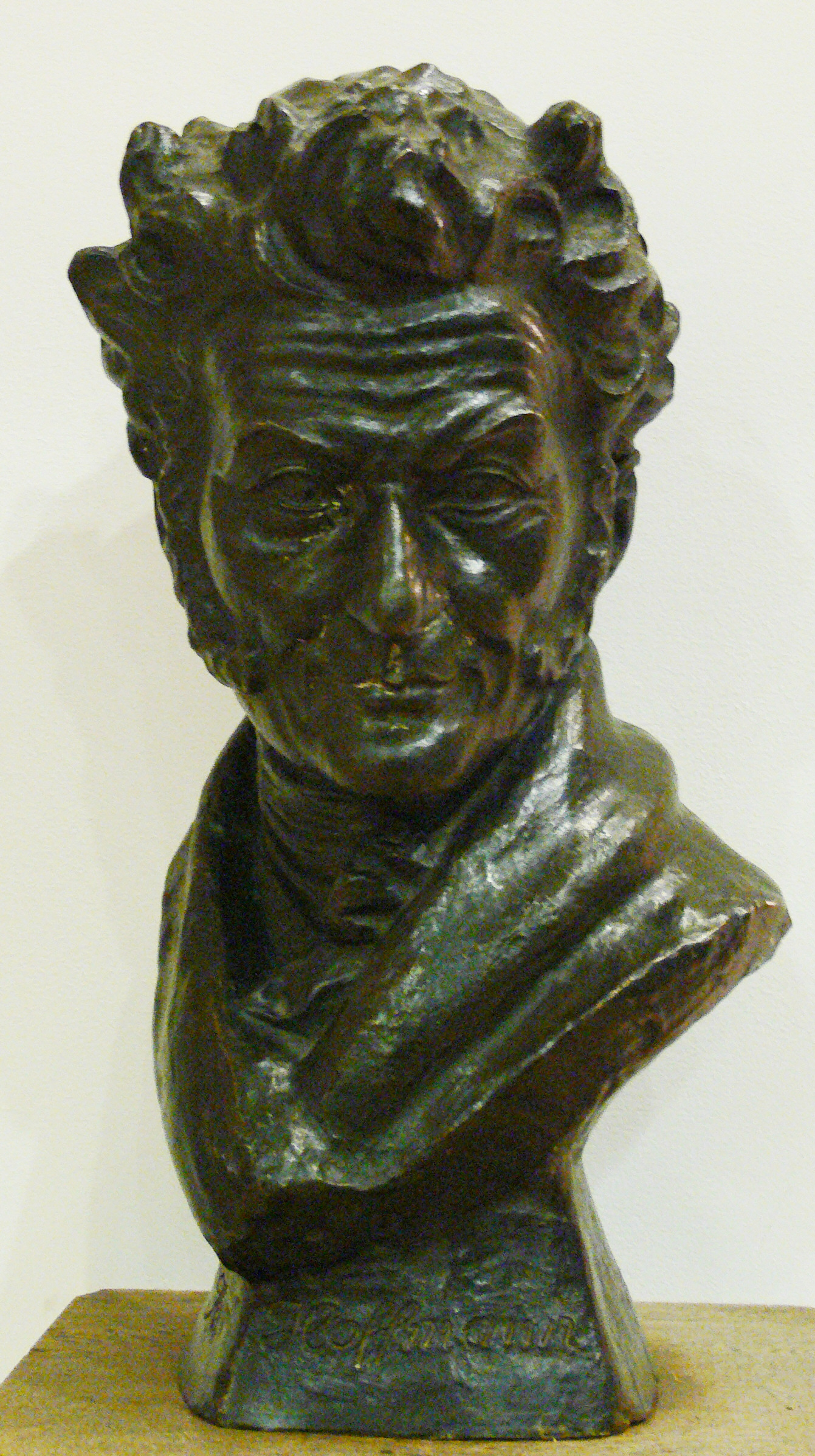 E.T.A.-Hoffmann-Theater Bamberg Büste E. T. A. Hoffmann